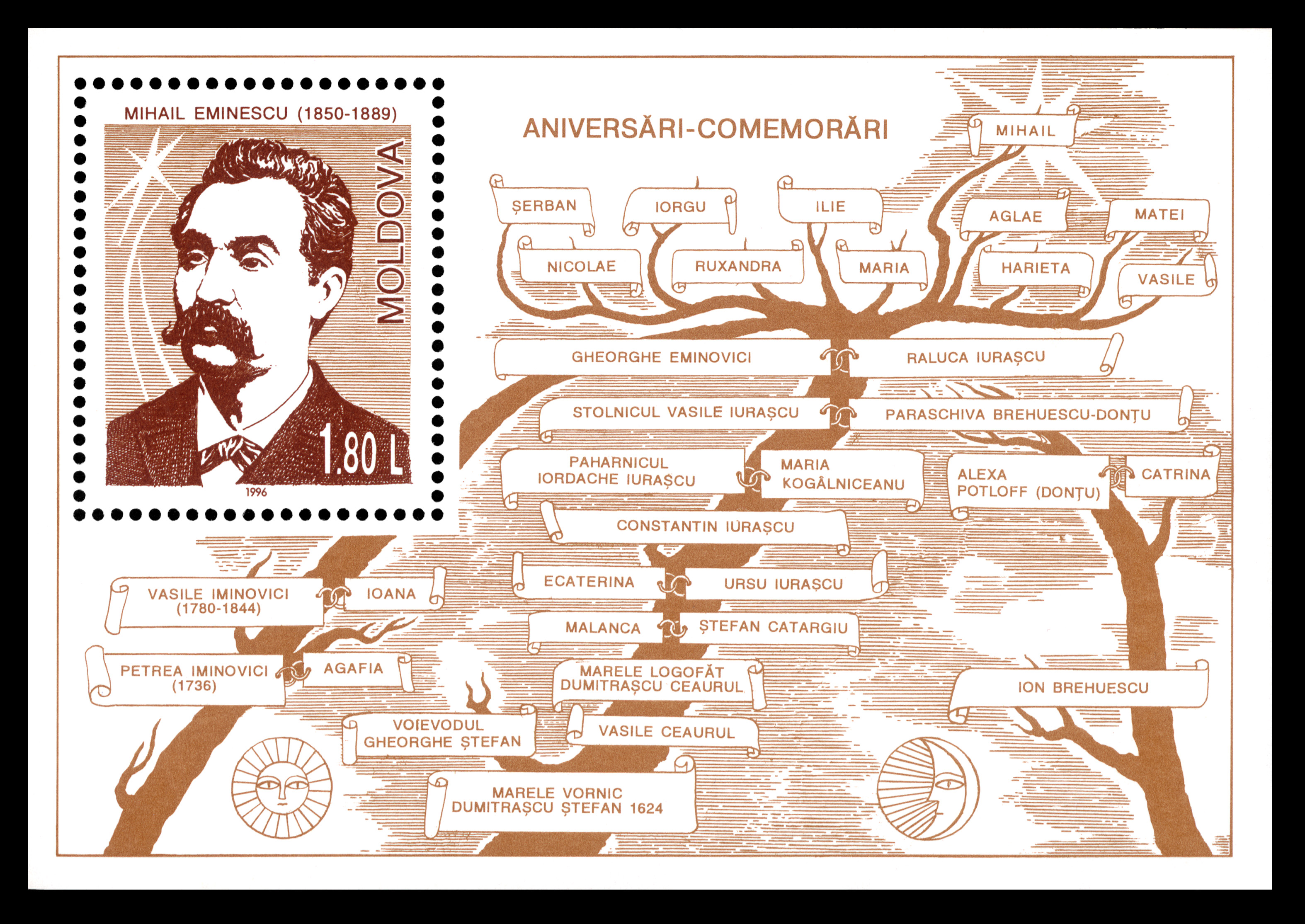 Stamp of Moldova